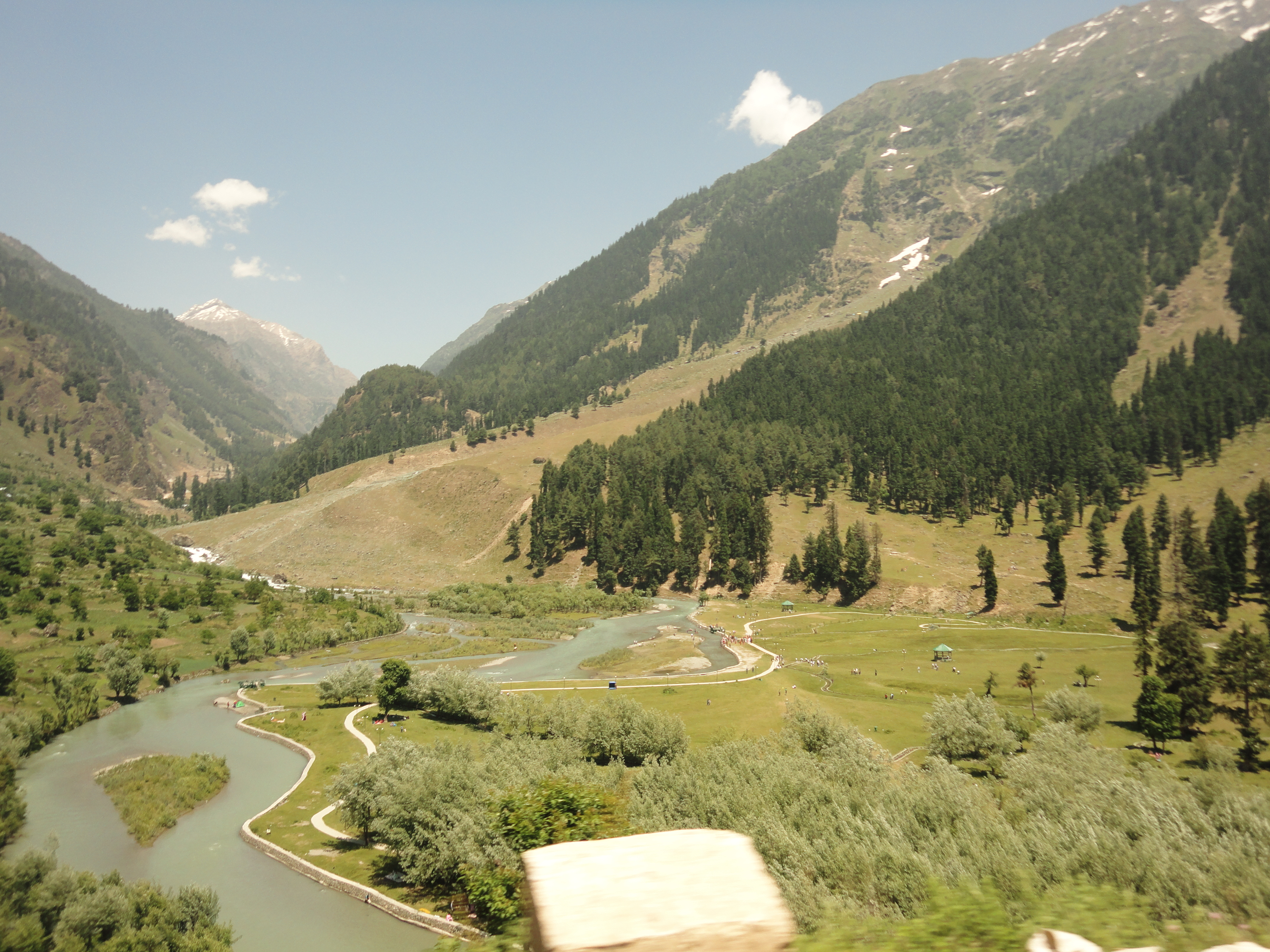 This is picture of Betaab Valley showing the whole of it from top.